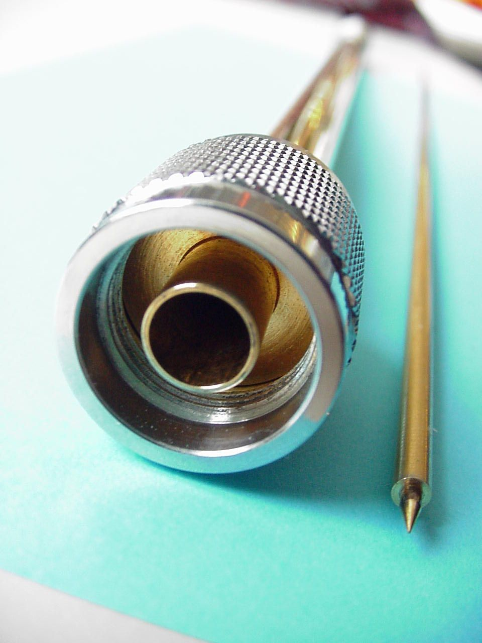 Outer and inner conductor of a type-N coaxial air line (inner diameter of outer conductor is 7 mm)